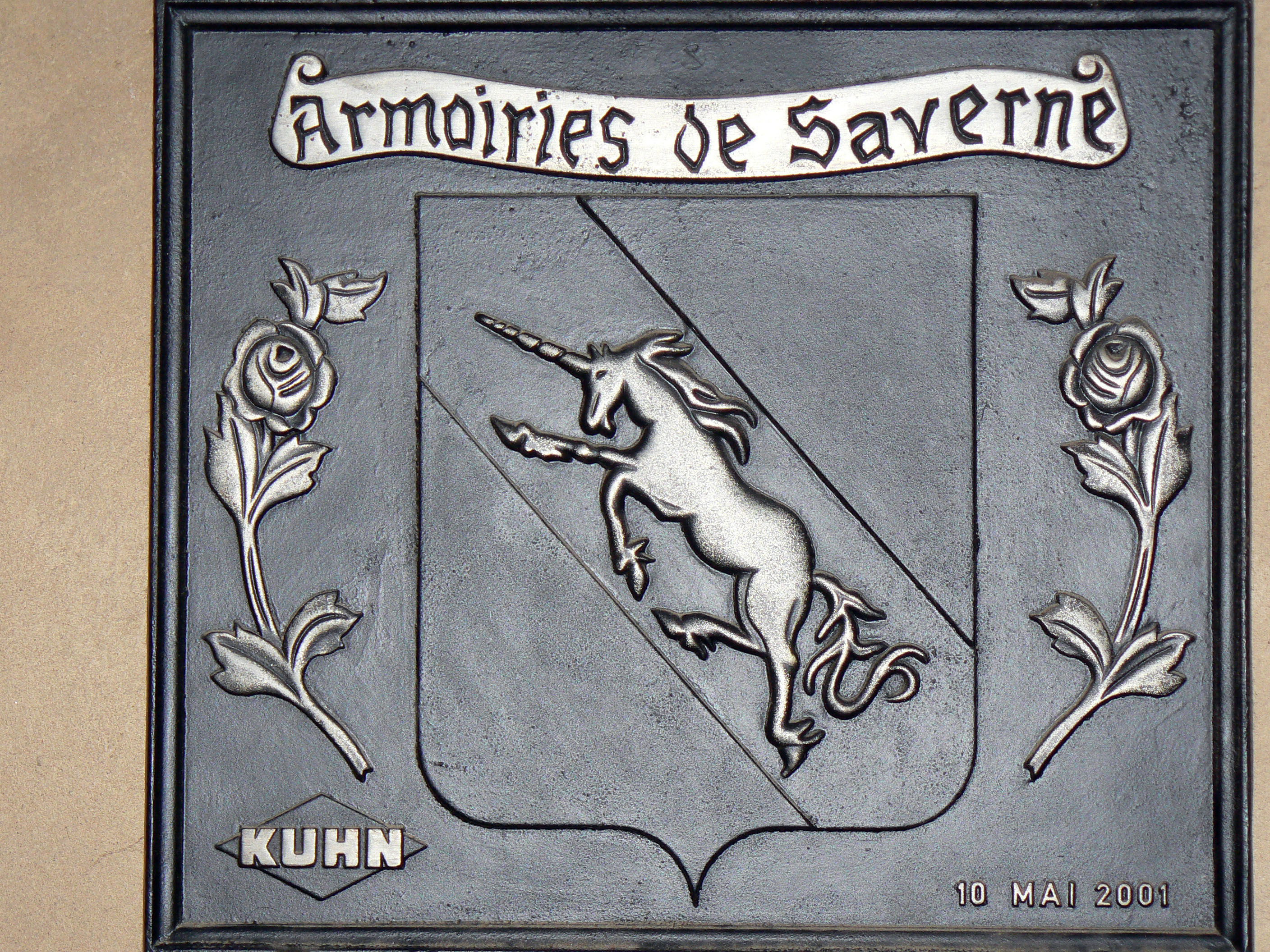 Coat of arms of Saverne.